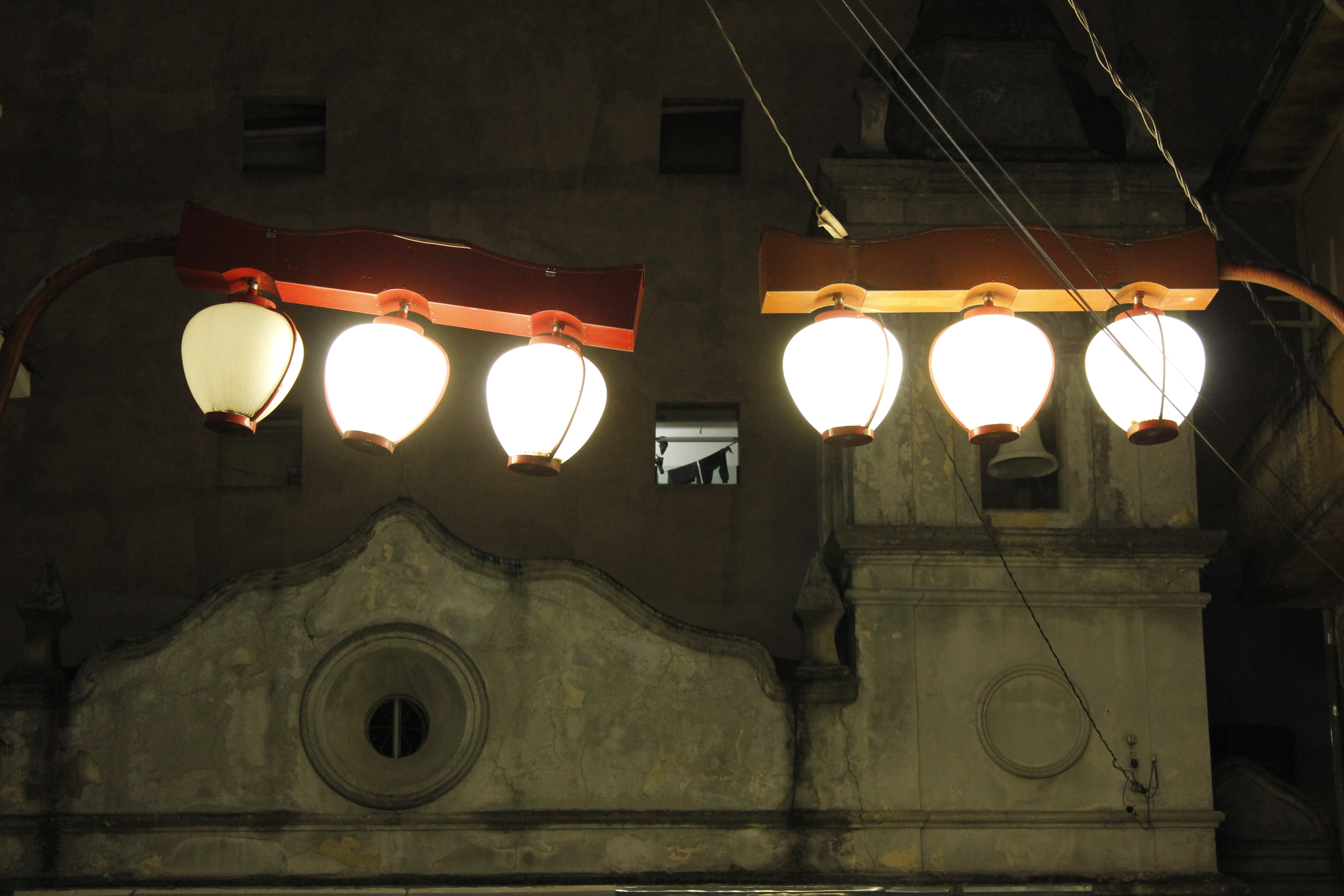 Capela dos Aflitos, São Paulo, Brazil - 2016. (Dimensions: 5184 x 3456 / Exposure: 1/125 / Focal Length: 27 / F Number: 4)